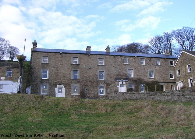 The Punch Bowl Inn : Feetham : dated 1638.